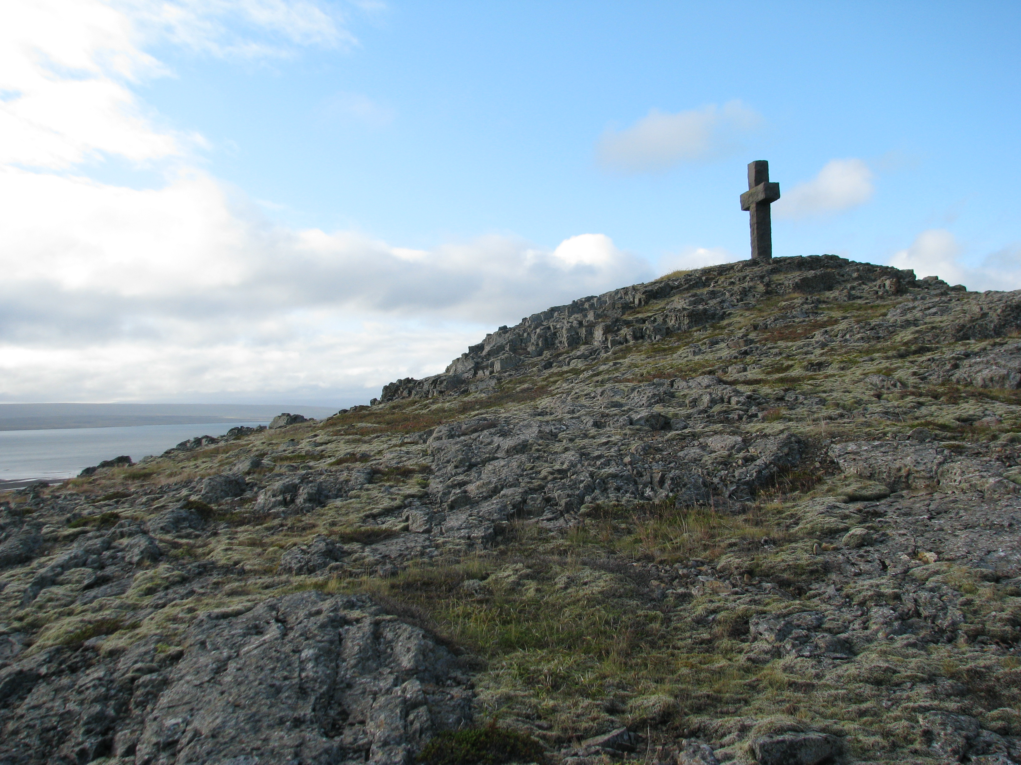 Monument in Iceland.